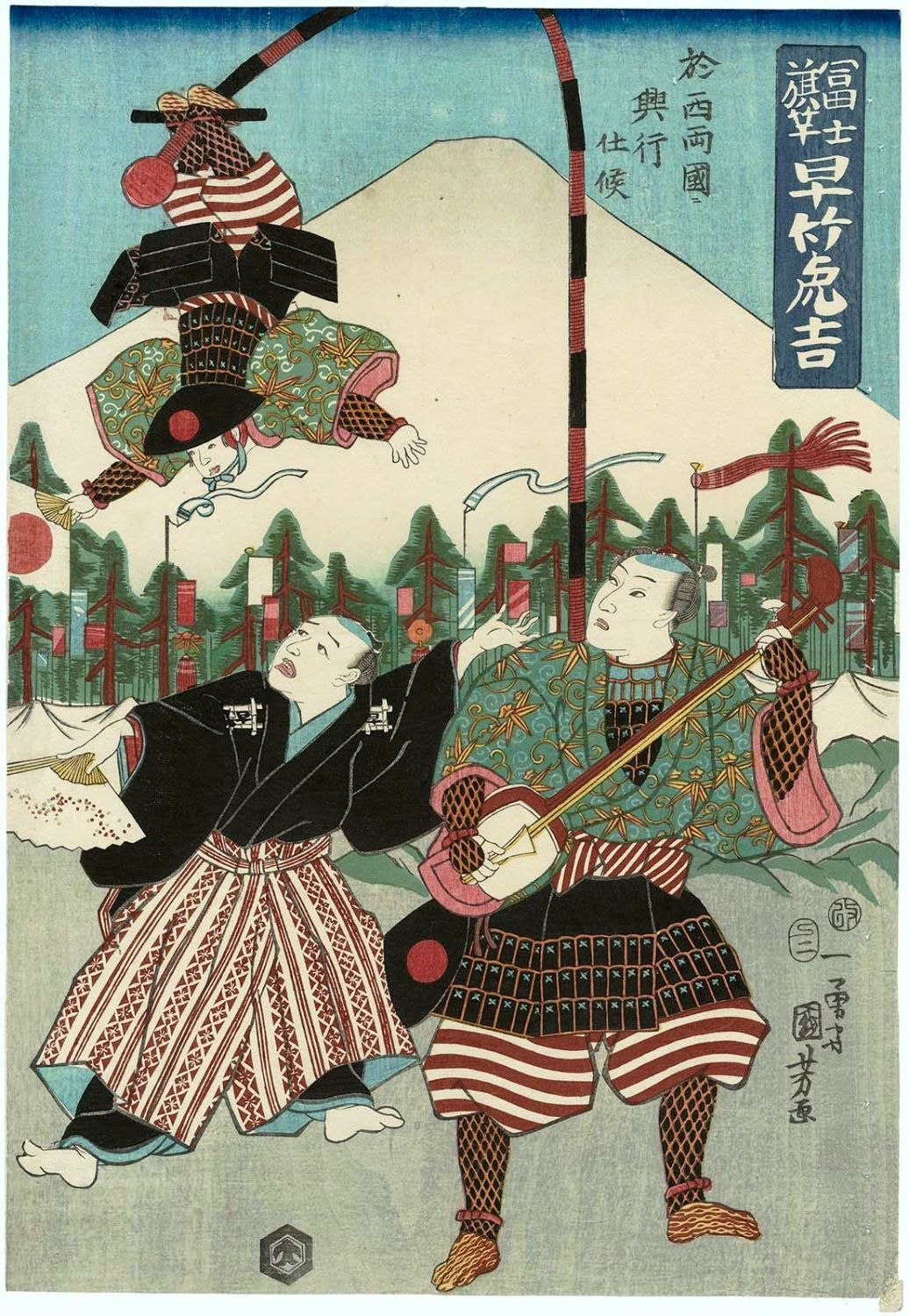 Japanese Acrobat performer, Hayatake Torakichi. Ukiyoe by Utagawa Kuniyoshi, 1857